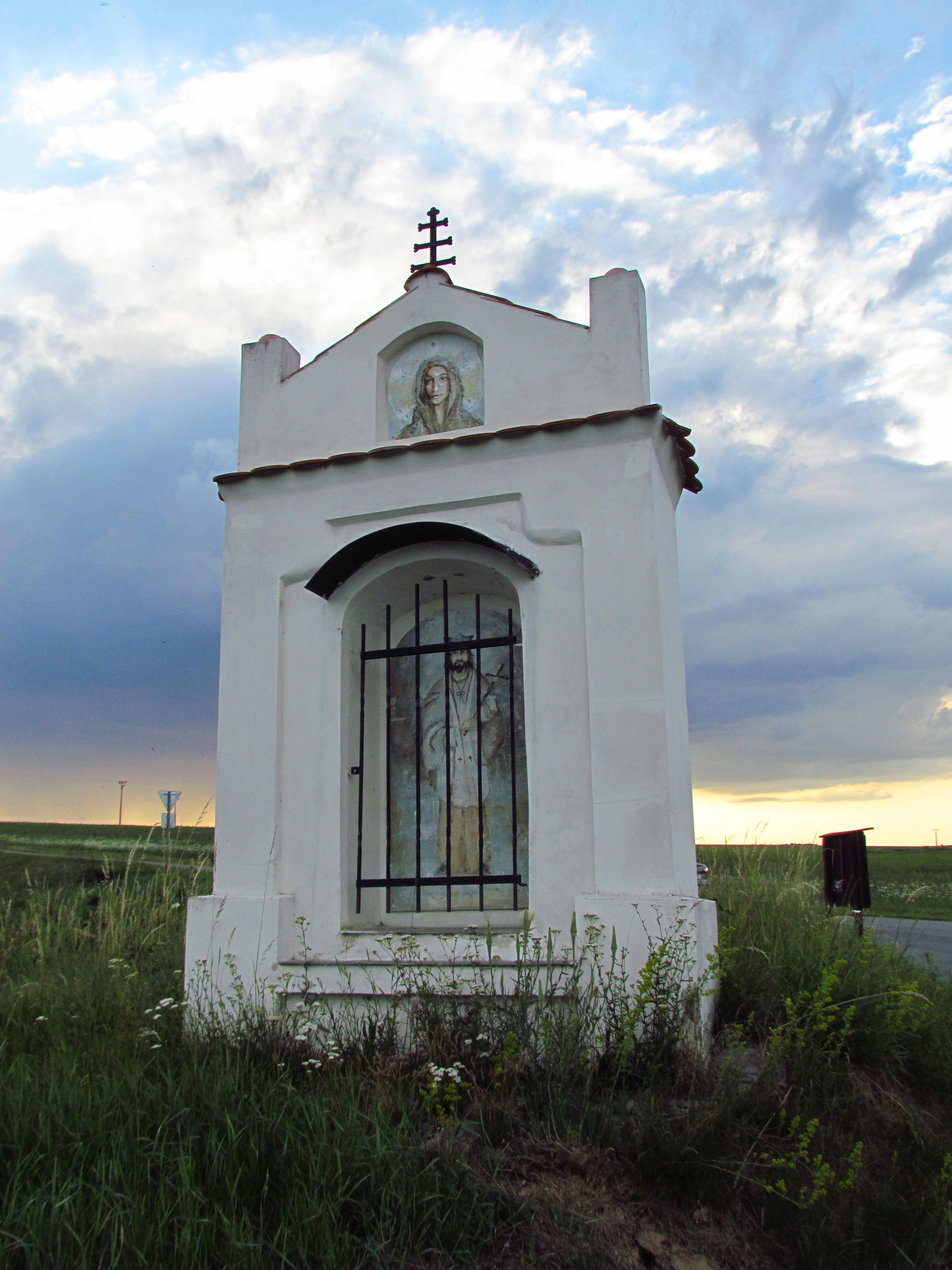 Chapel of Saint John of Nepomuk in Biskupice-Pulkov, Třebíč District.